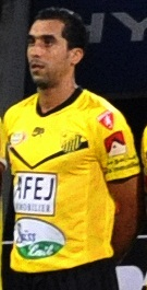 Hamza Abourazzouk, September 2011